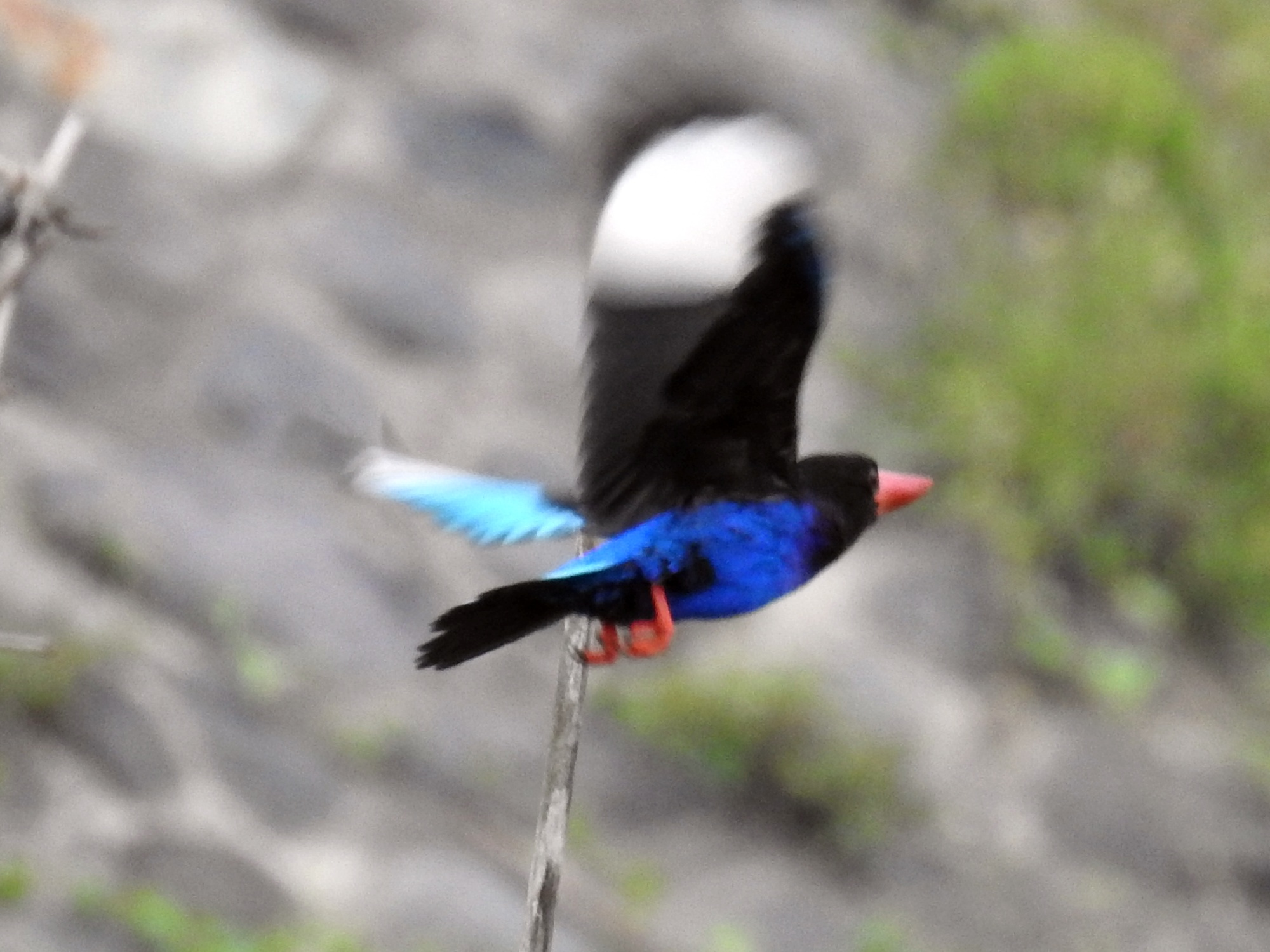 Javan kingfisher, Halcyon cyanoventris. From south Lumajang, East Java, Indonesia.